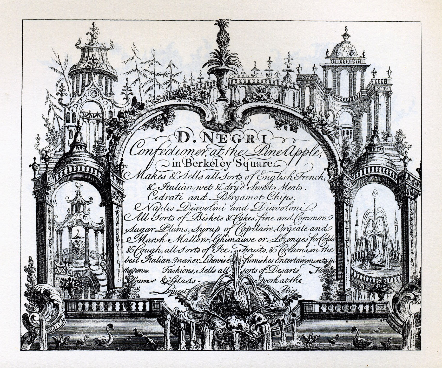 Trade card of Domenico Negri confectioner, at the Pineapple, Berkeley Square, London; a decorative framework with his shop sign, the Pineapple, at the top, a panel of lettering in the centre and rococo chinoiserie architecture and flower designs to the sides; at the bottom a large fountain pouring into an ornamental pond with geese and ducks